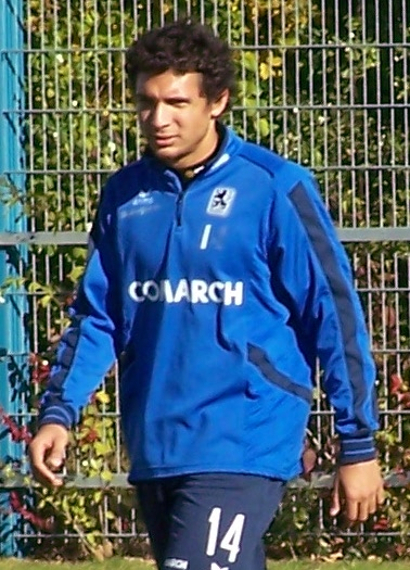 Juan Barros, 1860 munich, training